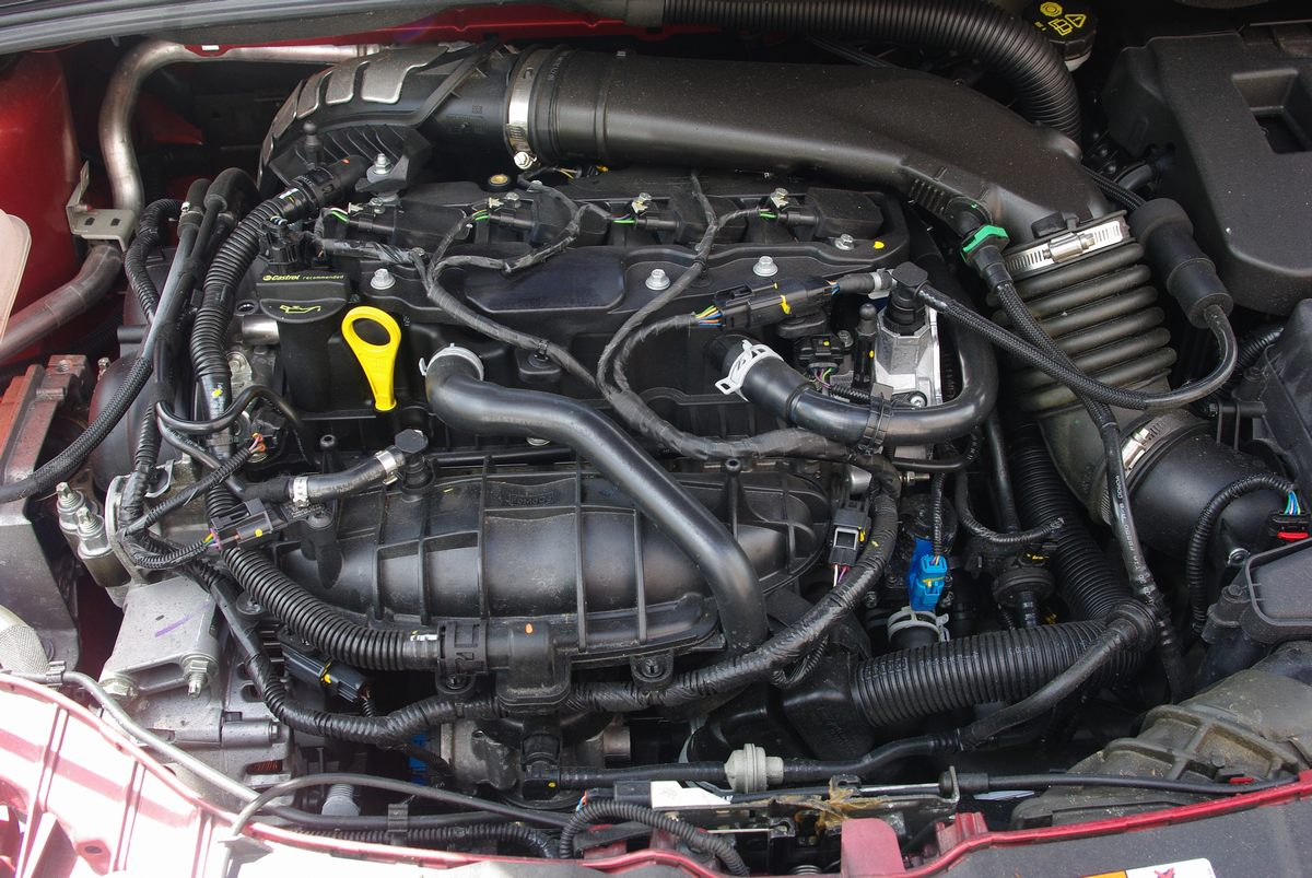 Ford 1.6 Ecoboost engine in a 2012 Ford Focus estate